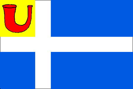 Flag of the Dutch municipality of Heel, own work - Quistnix 17:16, 26 November 2005 (UTC)